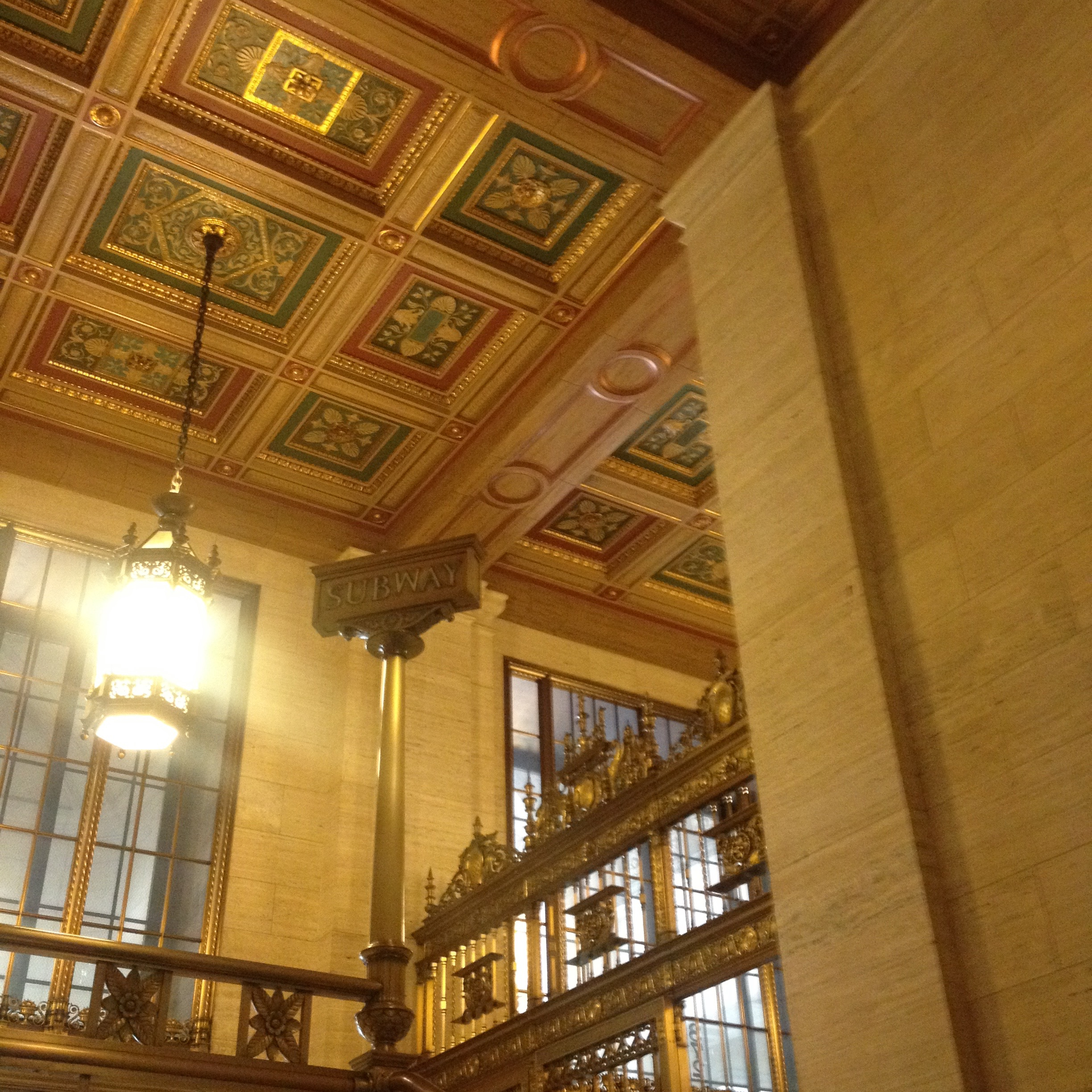 ornate